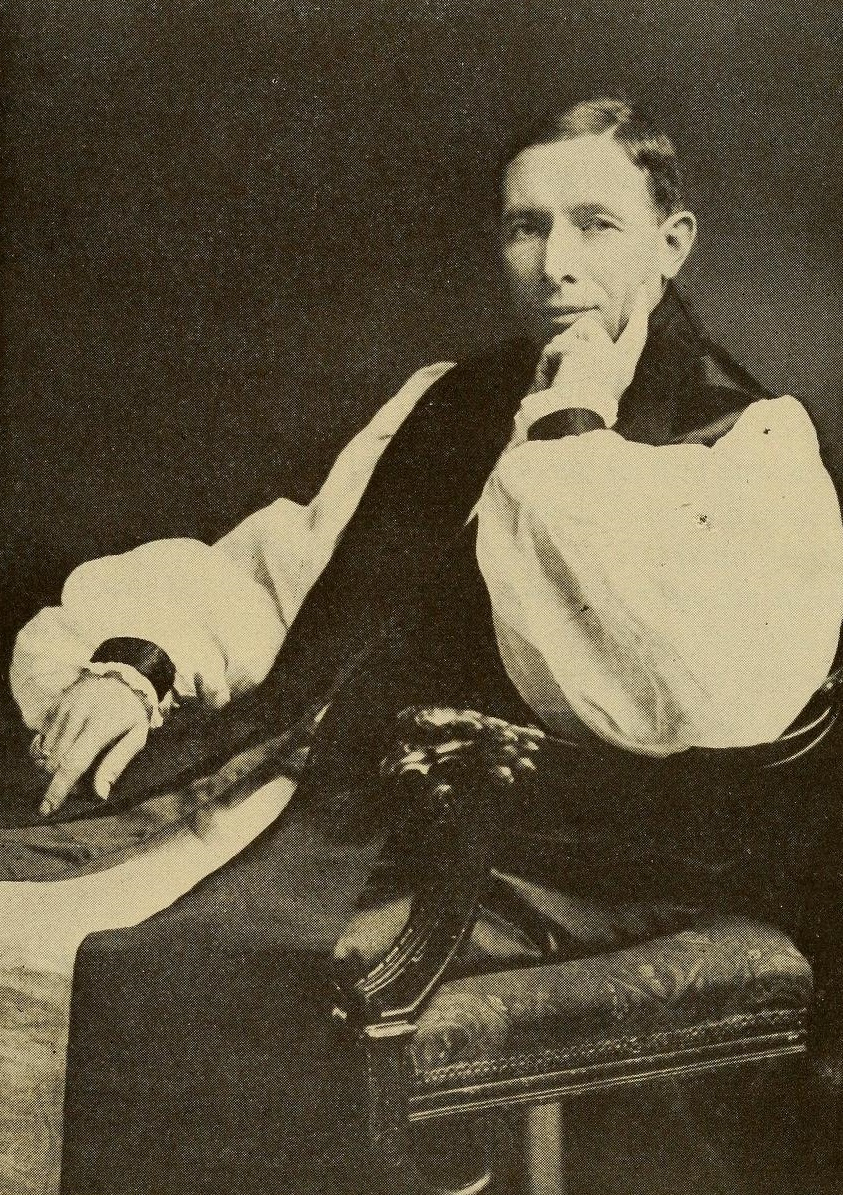 Picture of Bishop Charles Brent